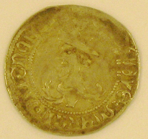 William III the brave (1425-1482) of Meissen minted a silver groschen, known as the Judenkopf Groschen. Its obverse portrait shows a man with a pointed beard wearing a Judenhut, which the populace took as depicting a typical Jew Ref: Saurma no. 4386